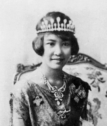 Her Royal Highness Princess Lashamilavan